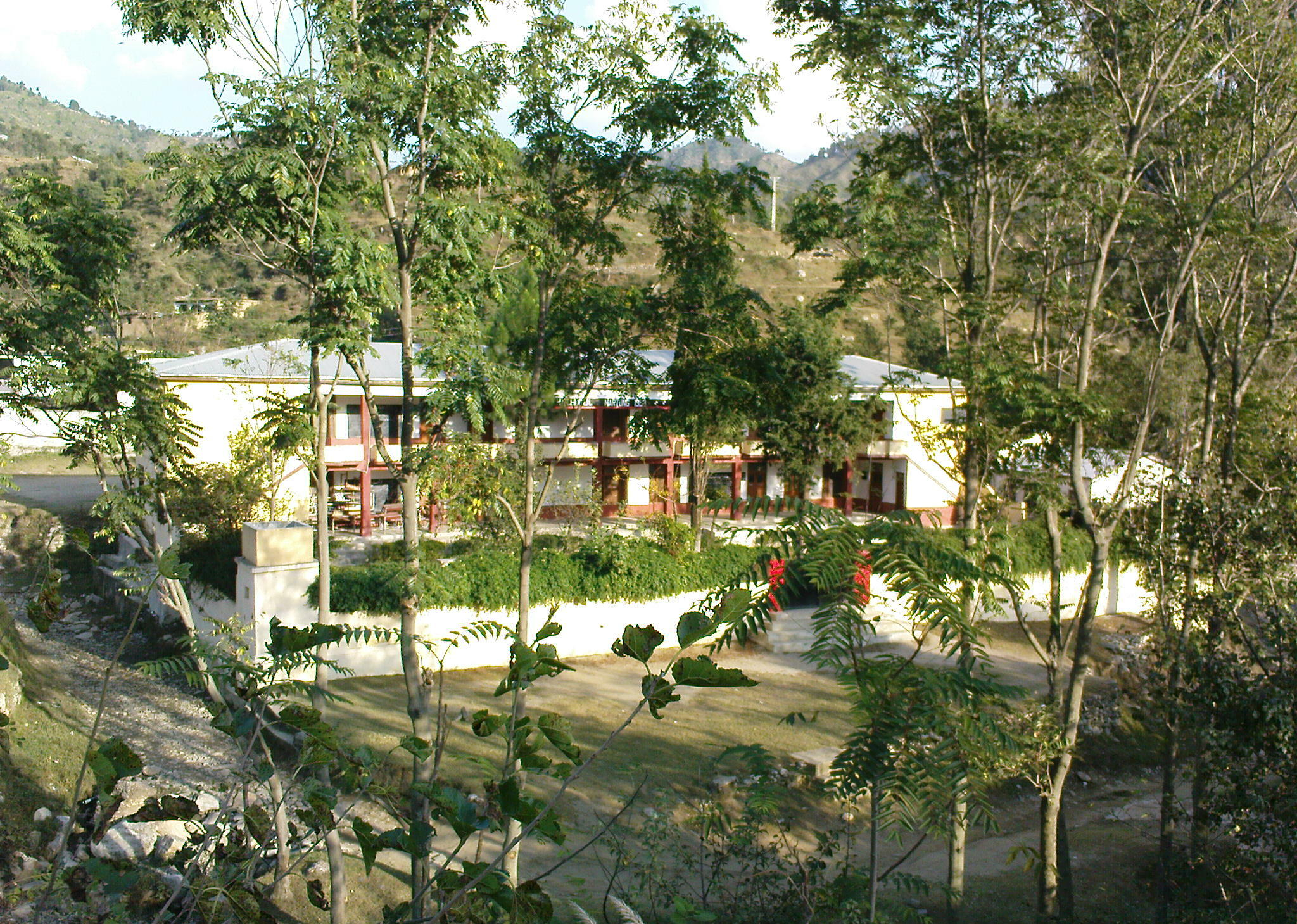 A view of the building of High School Martung, the only Secondary School in the Tehsil.